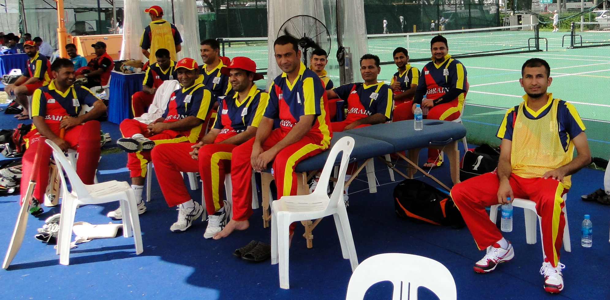 Bahrain cricket team at a tournament in Singapore, June 2014